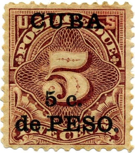 1899 Cuban postage due stamp. Overprinted in the US on a US 5 cent postage due stamp for use during the US administration.